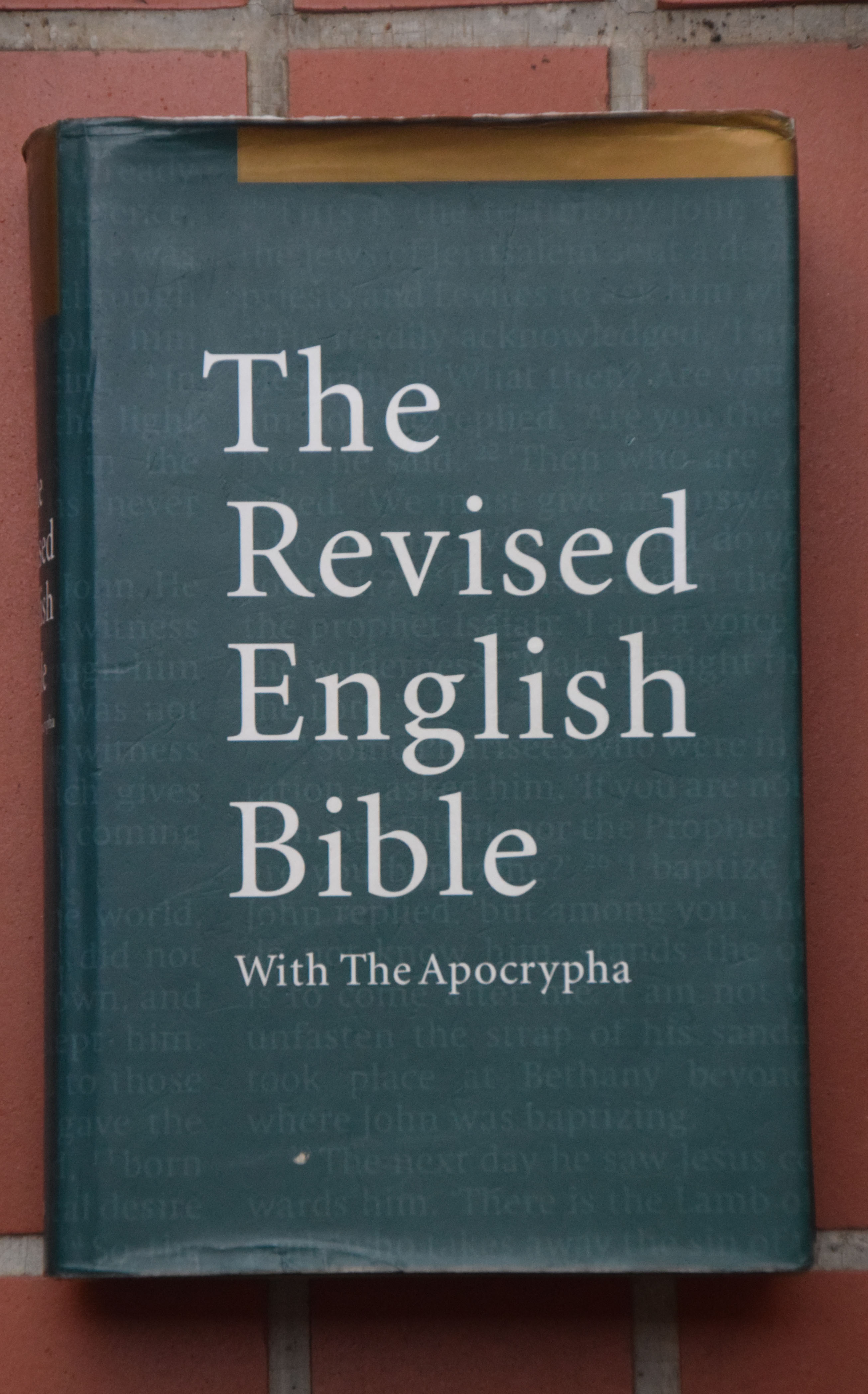 The Revised English Bible cover